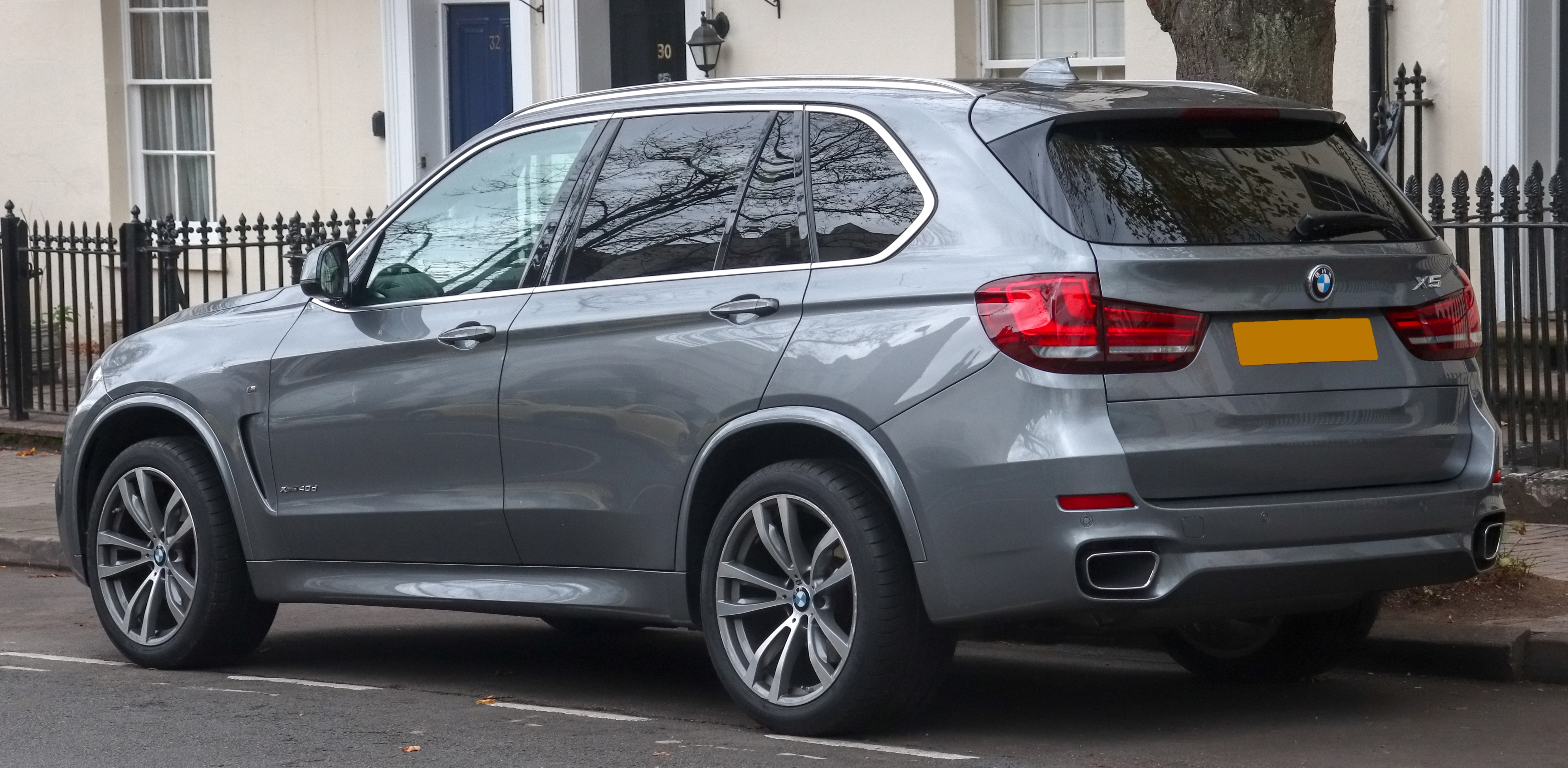 2016 BMW X5 xDrive40d M Sport Automatic 3.0 Rear Taken in Leamington Spa